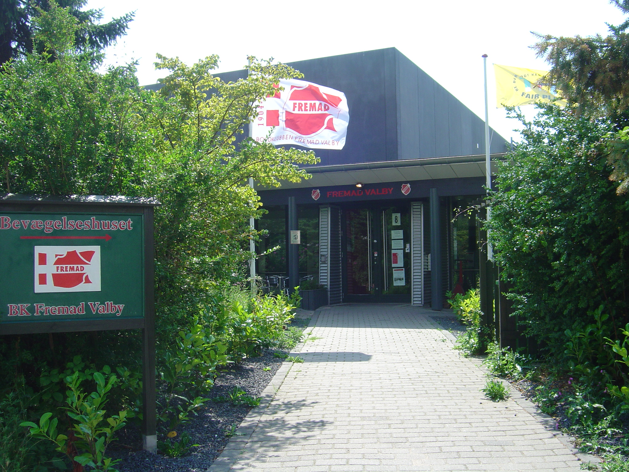 Boldklubben Fremad Valby - the club house of a Danish association football club in Valby Idrætspark, Valby, Copenhagen. Seen from the northeast side.